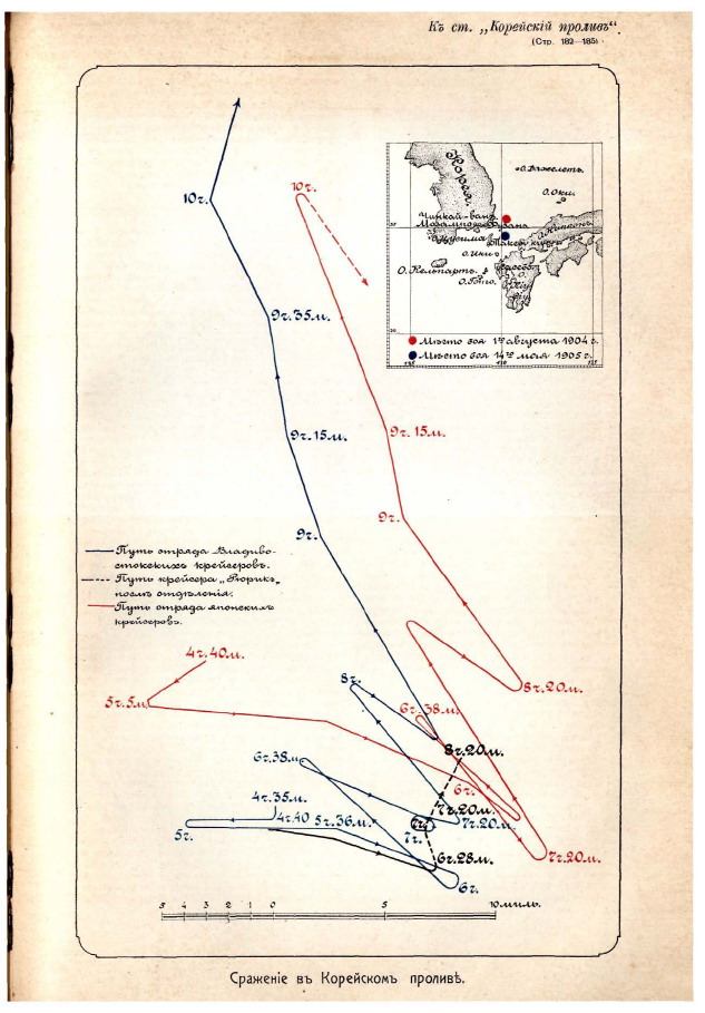 Battle of Ulsan